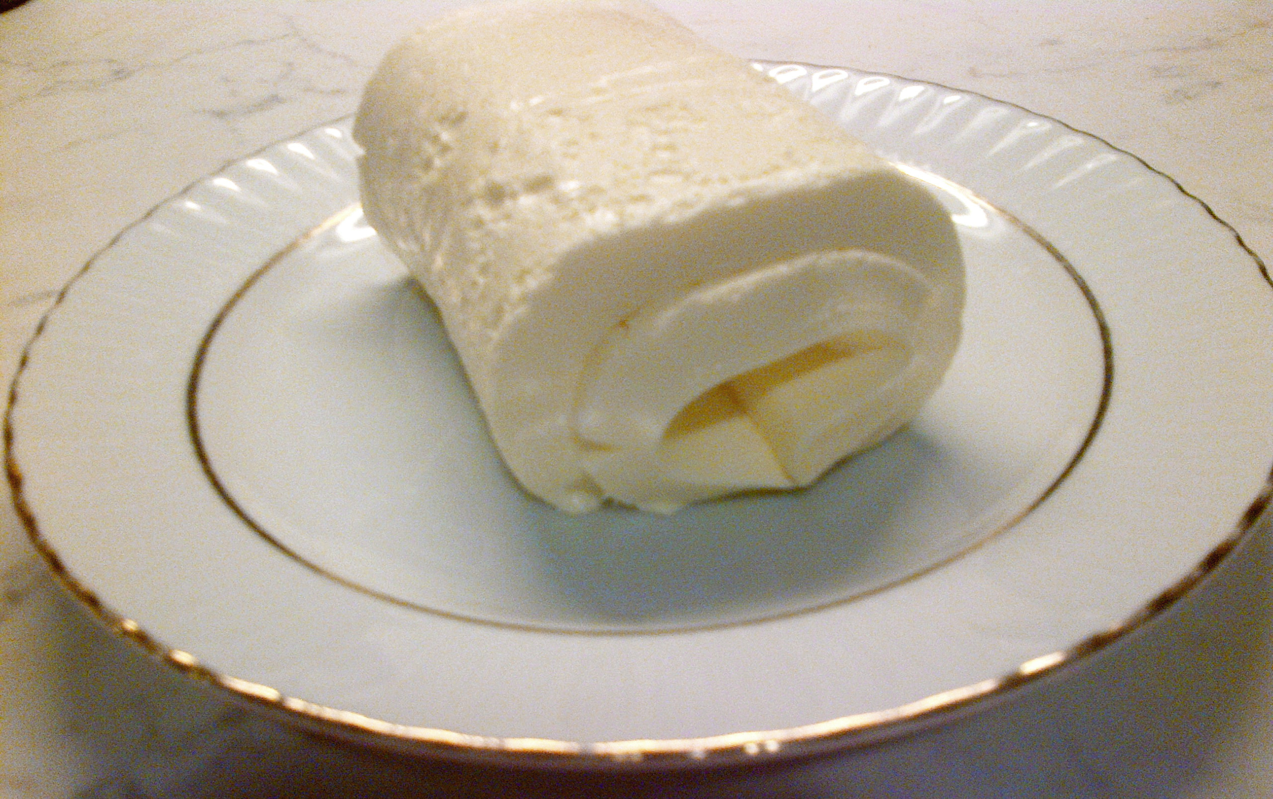 Turkish kaymak, used on top of many desserts of the cuisine of Turkey.